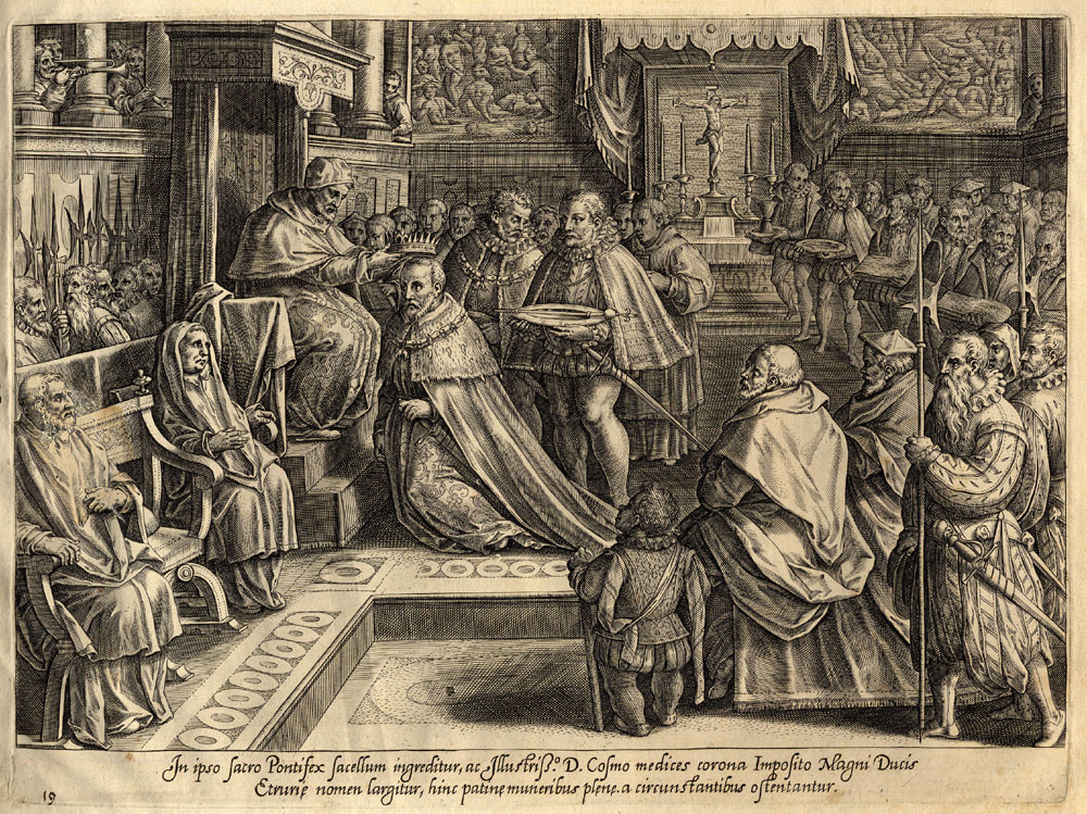 Blatt aus: Mediceae familiae victoriae et triumphi, Kupferstichwerk; 1583